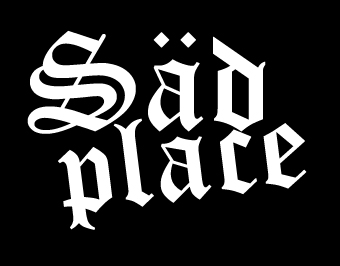 sad place logo